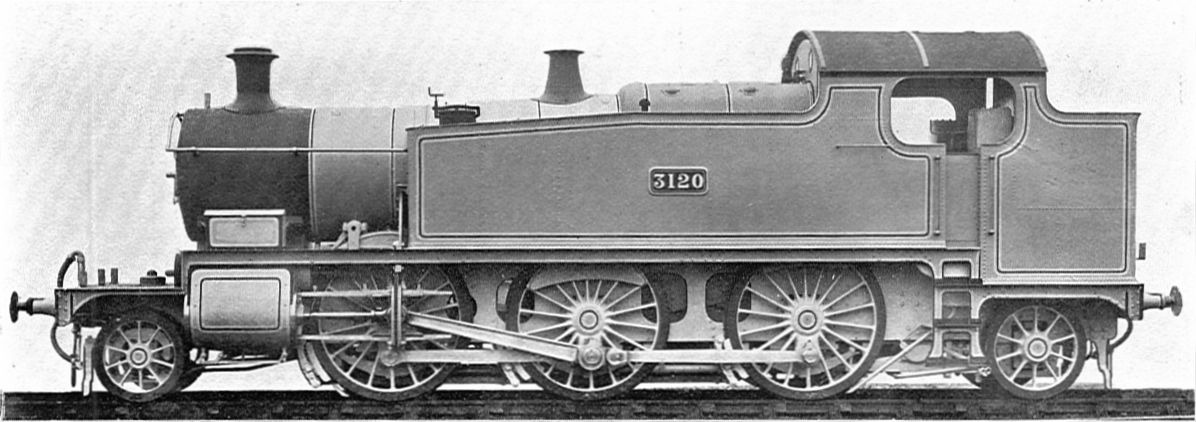 GWR 3100 Class